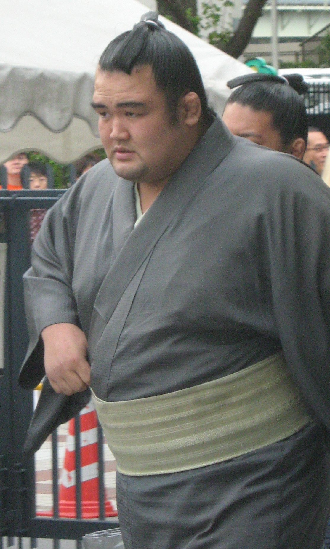 Picture taken at Sep 2008 tournament